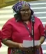 Description from YouTube: "South Africa's newly-elected Members of Parliament will be sworn in on Wednesday."